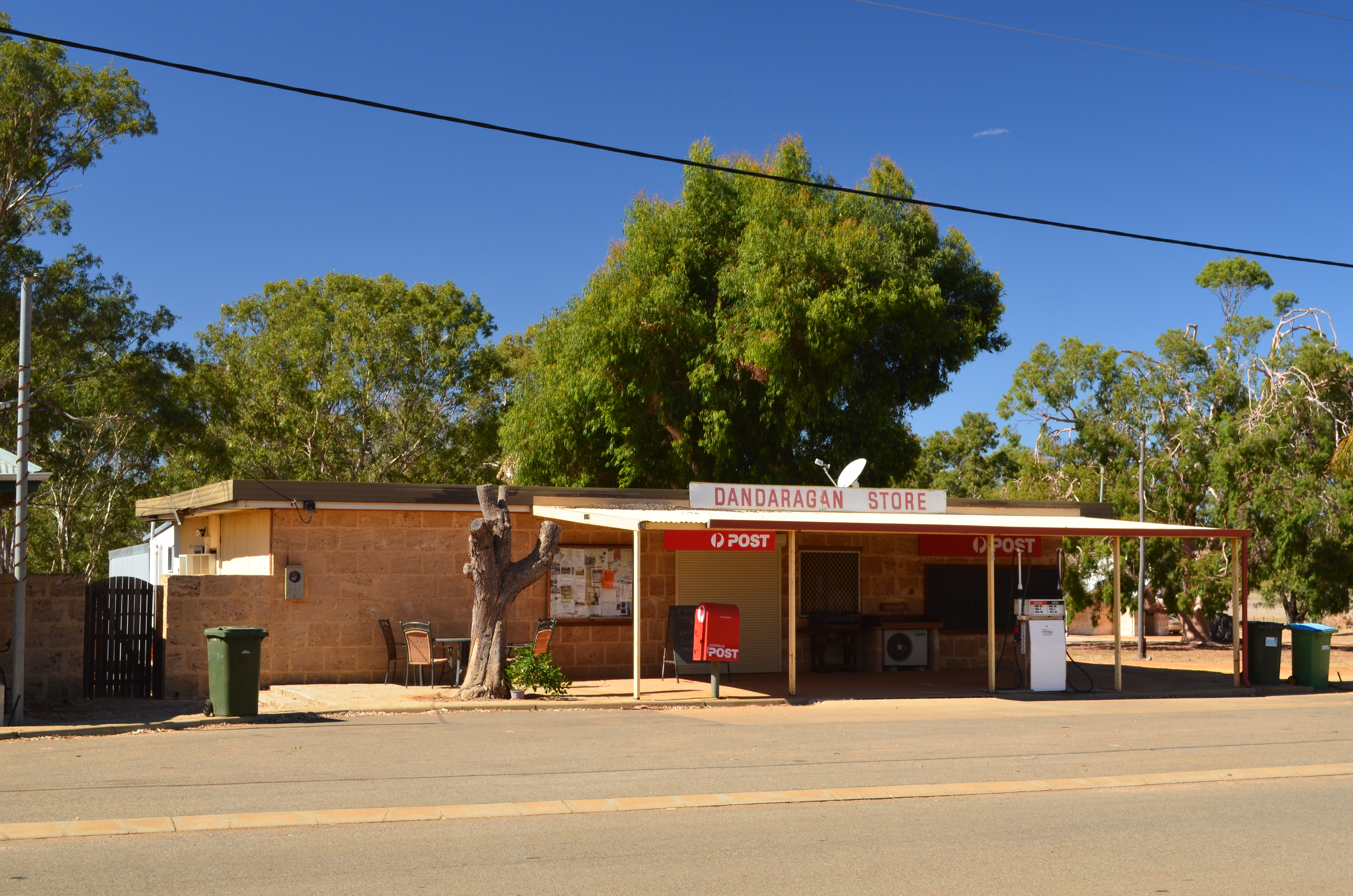 View of the Dandaragan Store, Dandaragan, Western Australia.